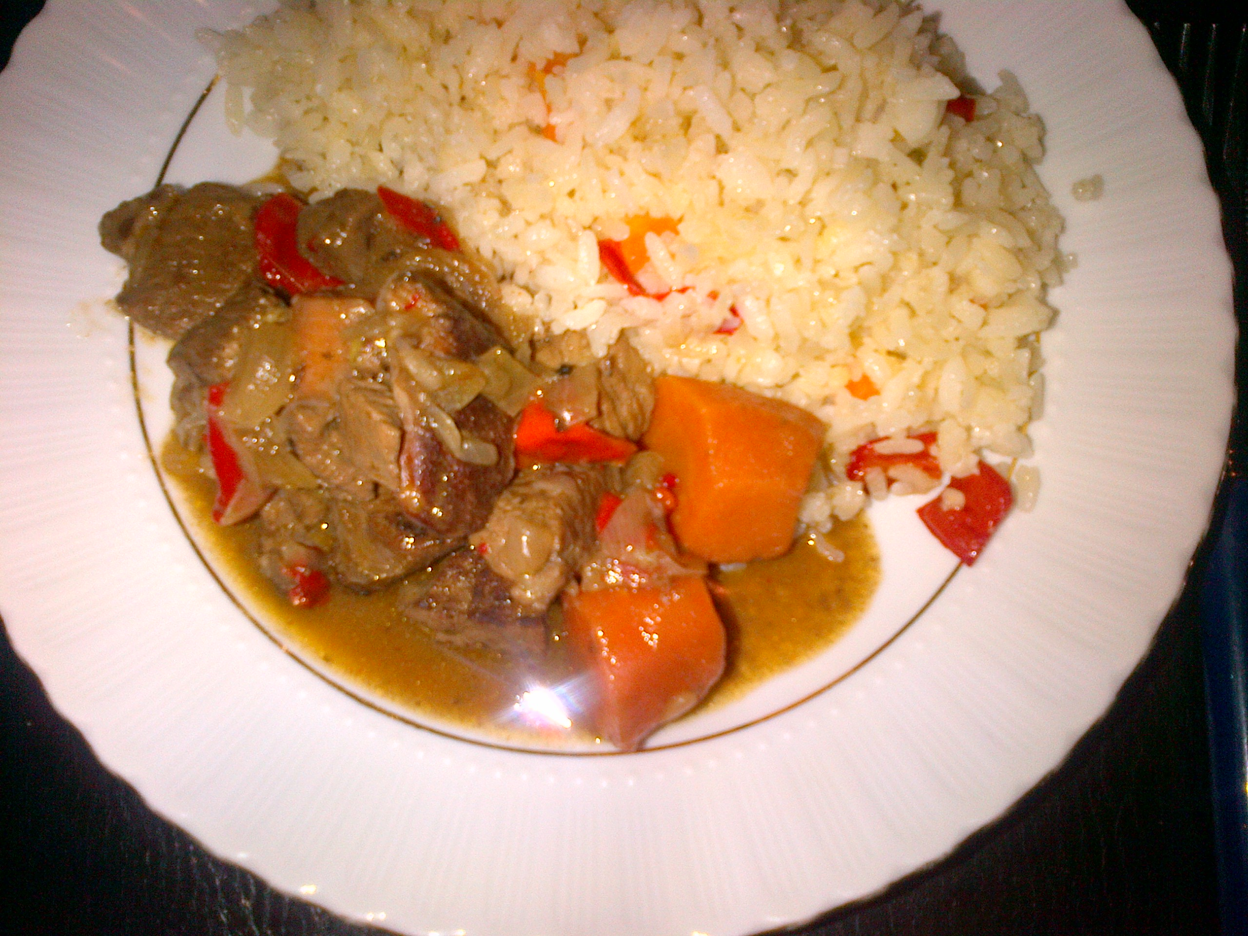 "Dana yahni" is a veal stew from the Turkish cuisine, perhaps similar to Tas kebap but with abundant onions and without potatoes. On the other hand, it has carrots, something which should normally not be added to a Tas kebap.